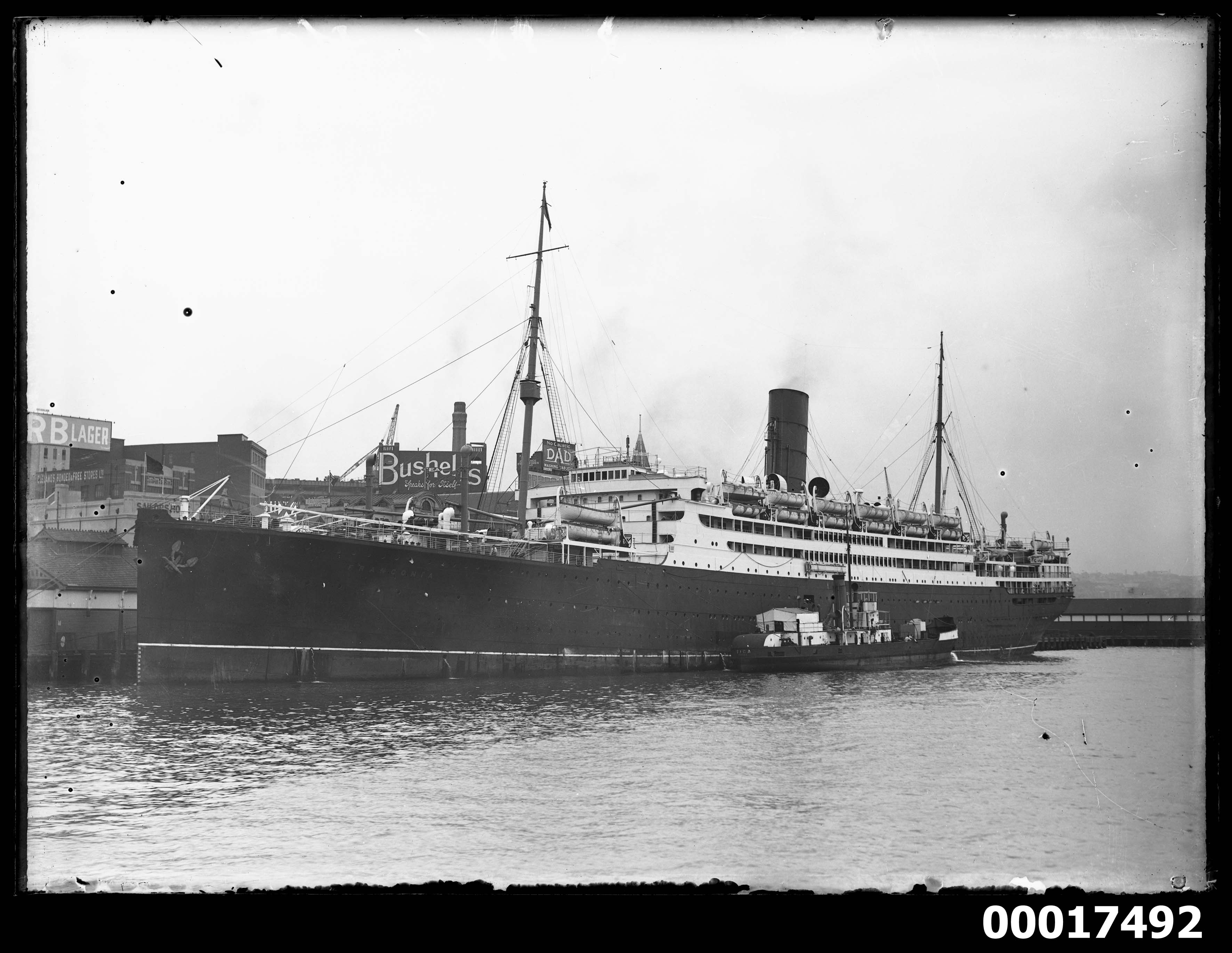 This image depicts Cunard Line's RMS FRANCONIA during its first visit to Sydney berthed at West Circular Quay on 5 March 1927. The Bushell's building is visible in the background as well as cranes being used to construct the Sydney Harbour Bridge. Newspaper articles reported that the liner was carrying 400 tourists. The ANMM undertakes research and accepts public comments that enhance the information we hold about images in our collection. This record has been updated accordingly. Photographer: unknown Object no. 00017492